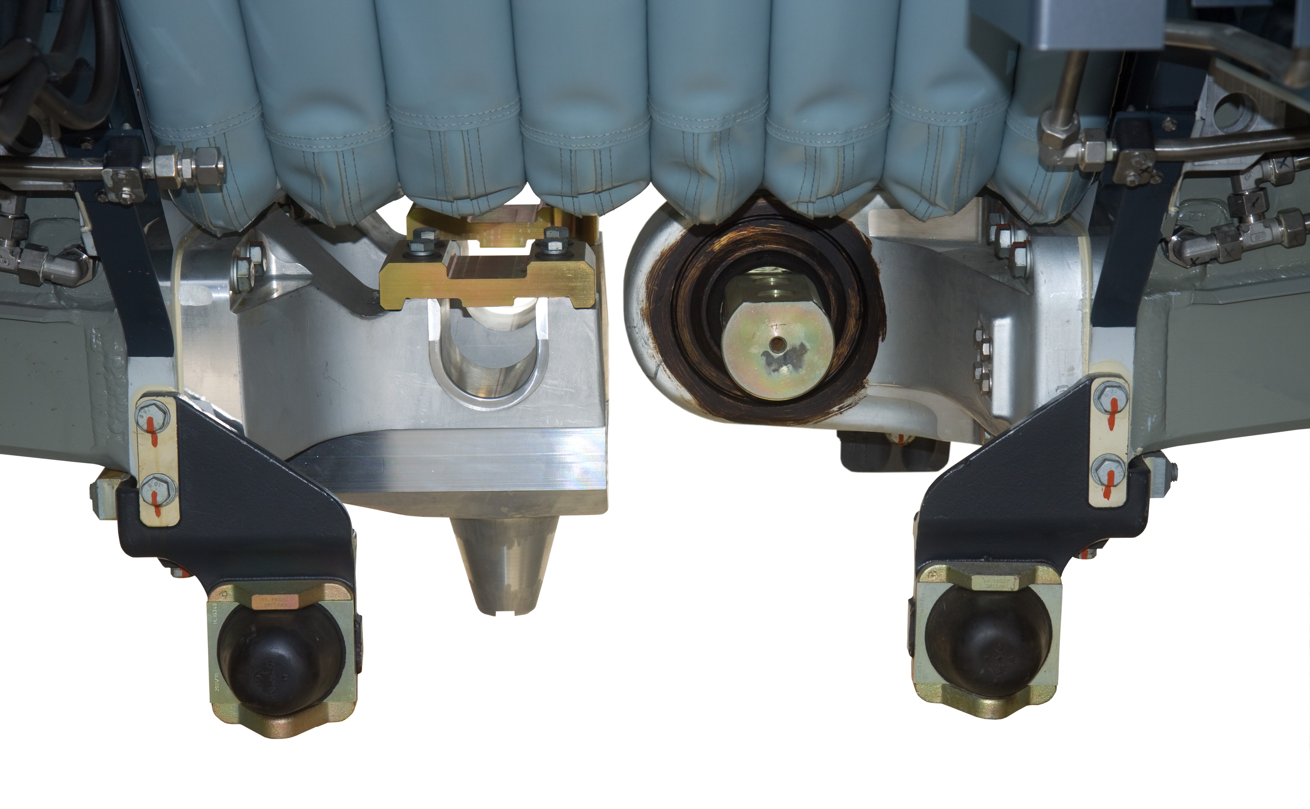 Joint of a Stadler FLIRT, Belarus version (broad gauge). The joint is taken apart, and the bogie is missing (it fits onto the spike at the bottom).